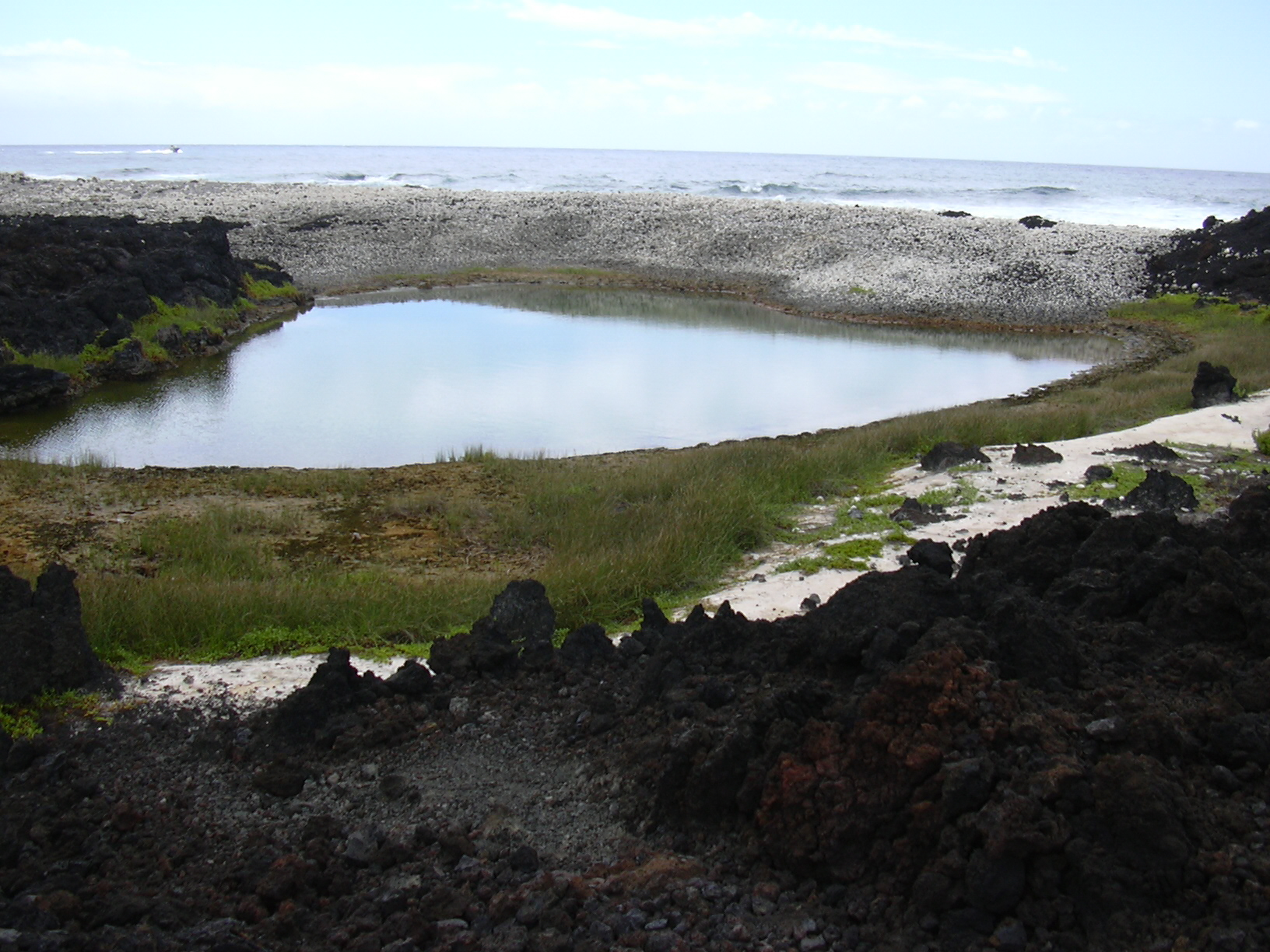 Cyperus laevigatus (near anchialine pond). Location: Maui, LaPerouse